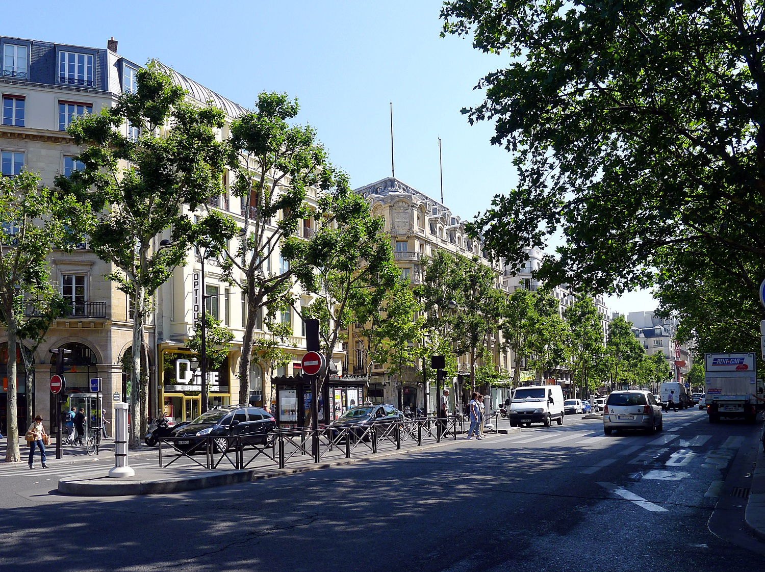 Madeleine boulevard - Paris